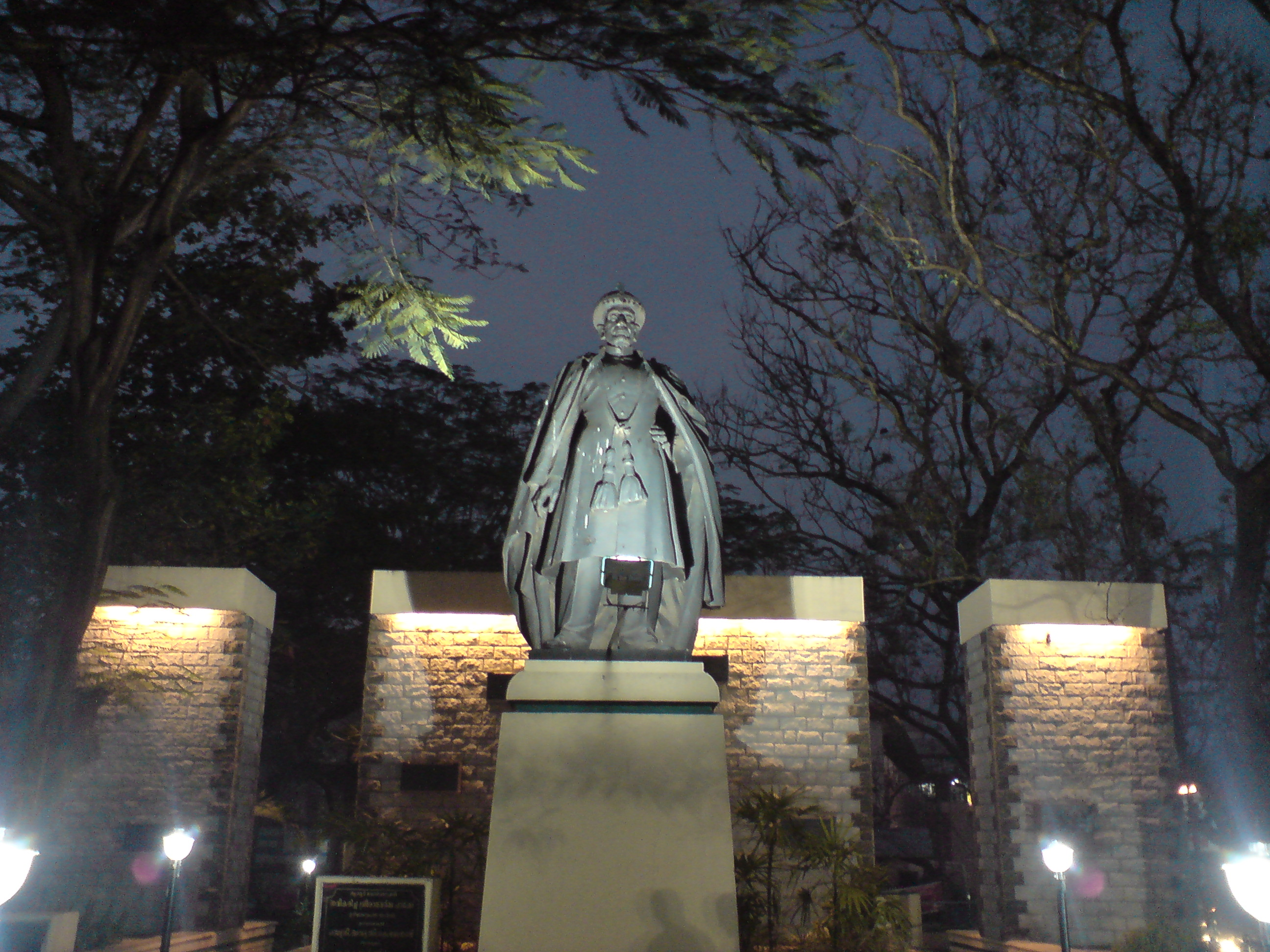 Statue of Rama Varma XVII, Maharaja of Cochin near the Paremkav temple in Thrissur city